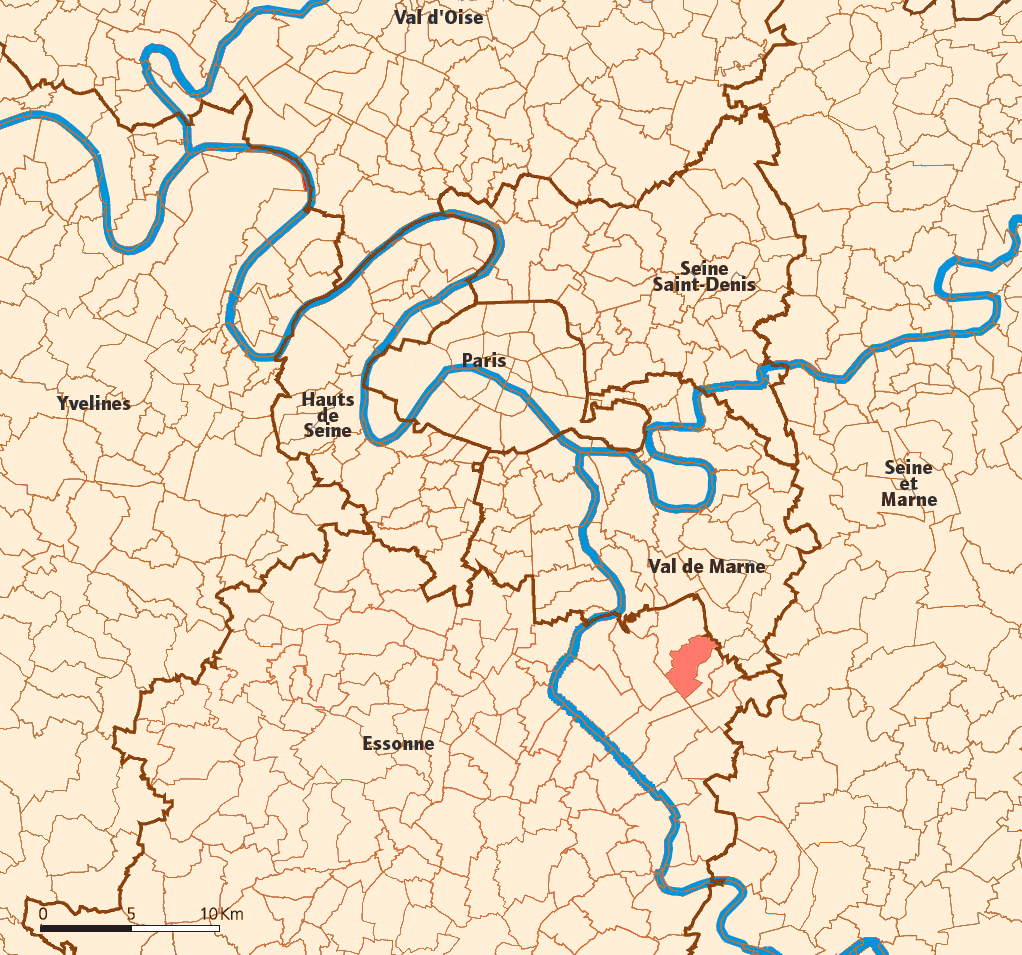 Created map myself